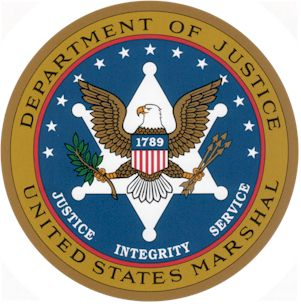 Seal of the United States Marshals Service